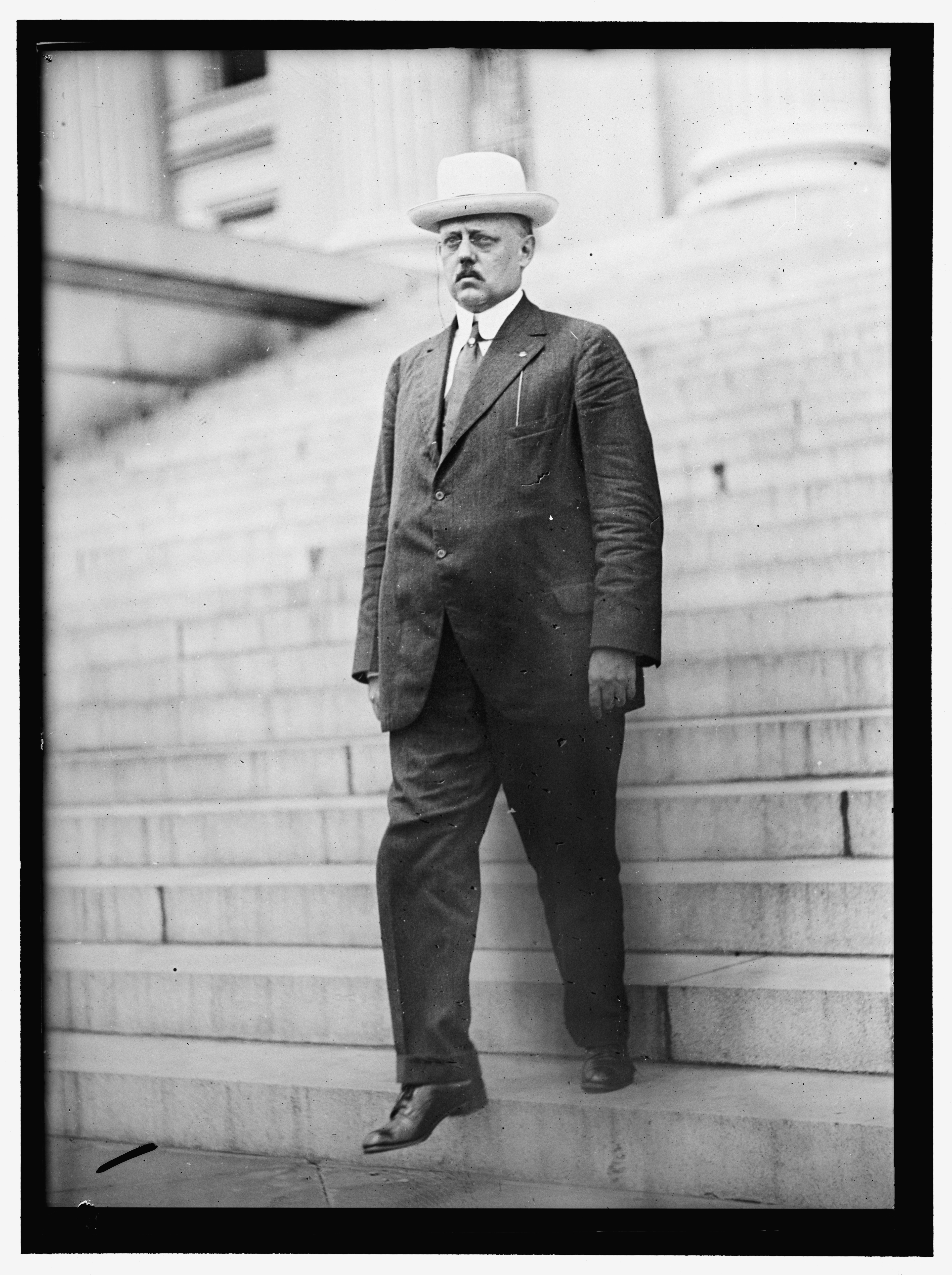 William P.G. Harding, the second chairman of the Federal Reserve. LOC has determined copyright has expired.[1]